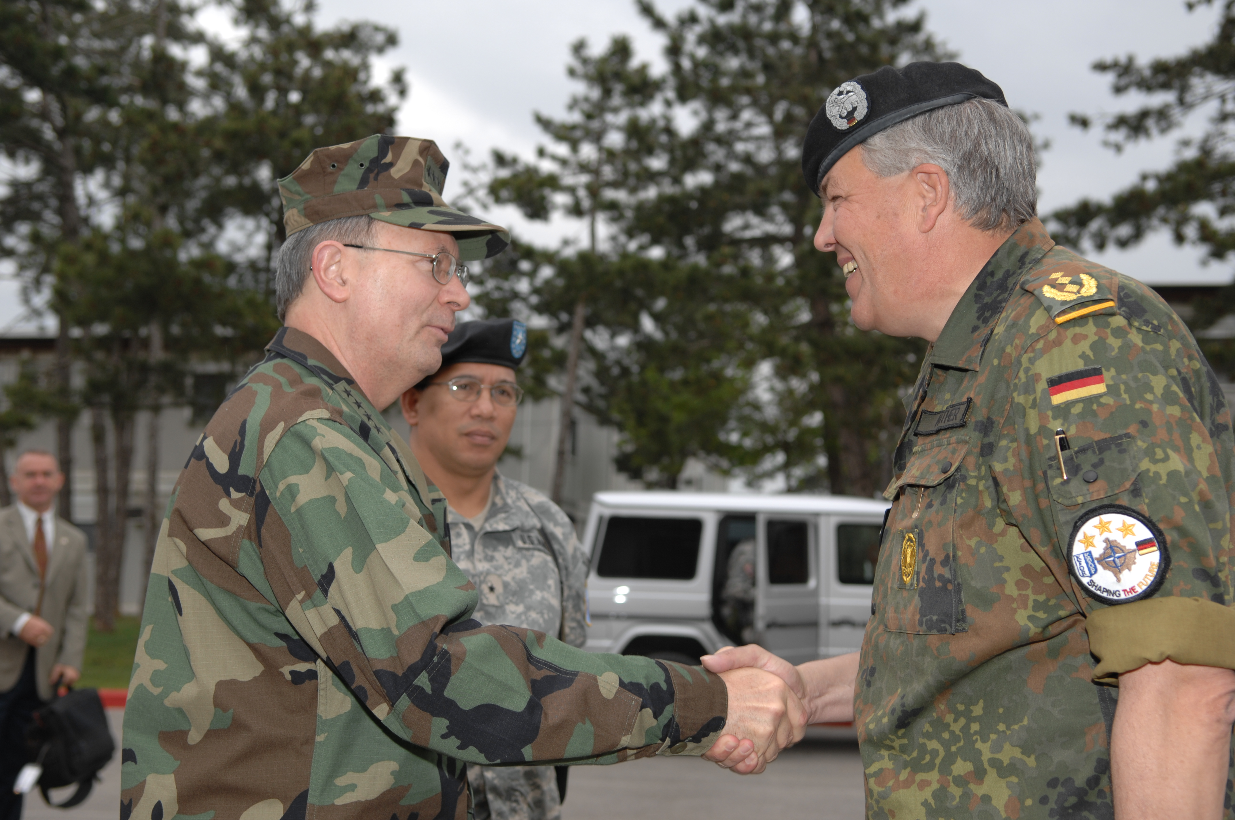 U.S. Navy Adm. Edmund P. Giambastiani, vice chairman of the Joint Chiefs of Staff, shakes hands with German Lt. Gen. Roland Kather, commander of Kosovo Forces, at the KFOR headquarters in Film City, Kosovo, as American Brig. Gen. Albert Bryant, Jr., KFOR chief of staff, looks on. Giambastiani received an update on operations in Kosovo and met with troops at Camp Bondsteel.